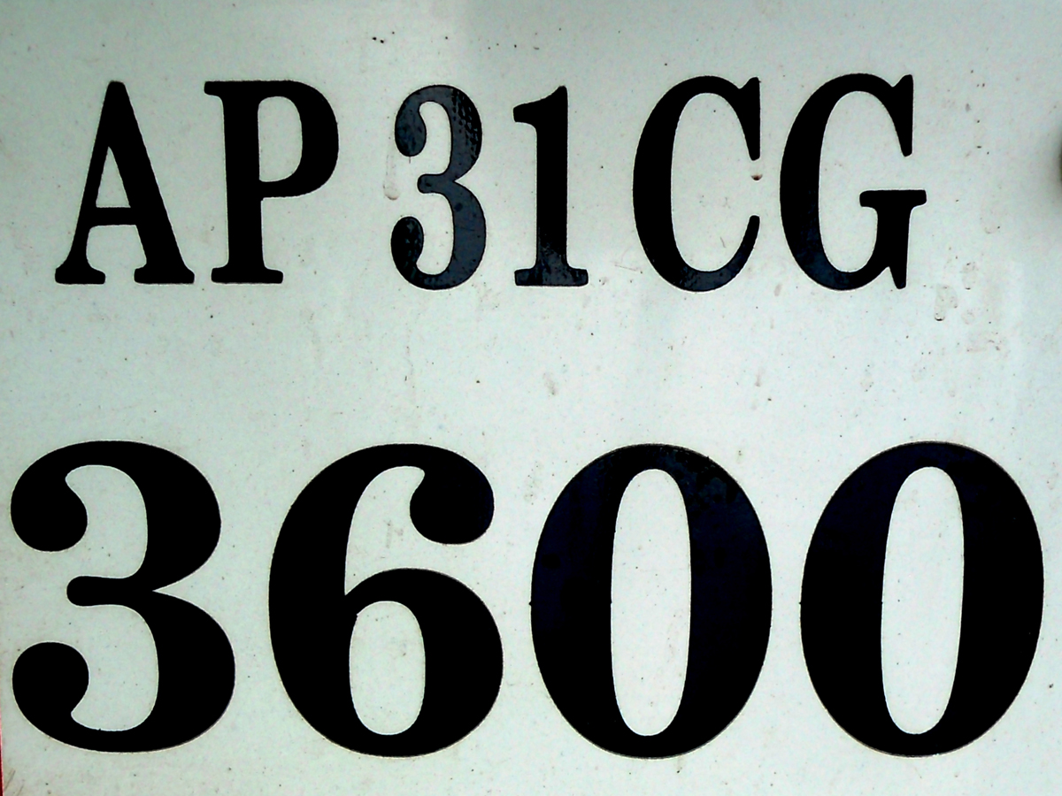 A Licensed Number Plate of a Honda Activa in Visakhapatnam, Andhra Pradesh